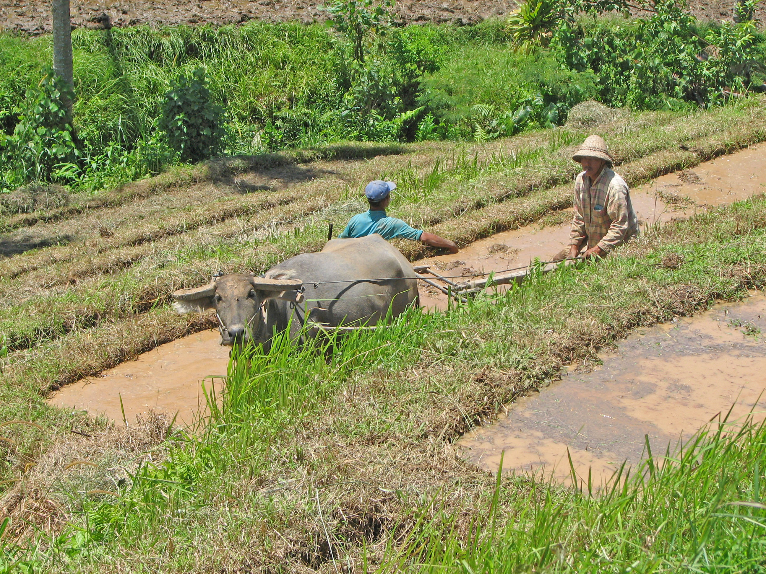 Plowing a ricefield with a buffalo (Island of Bali, Indonesia)